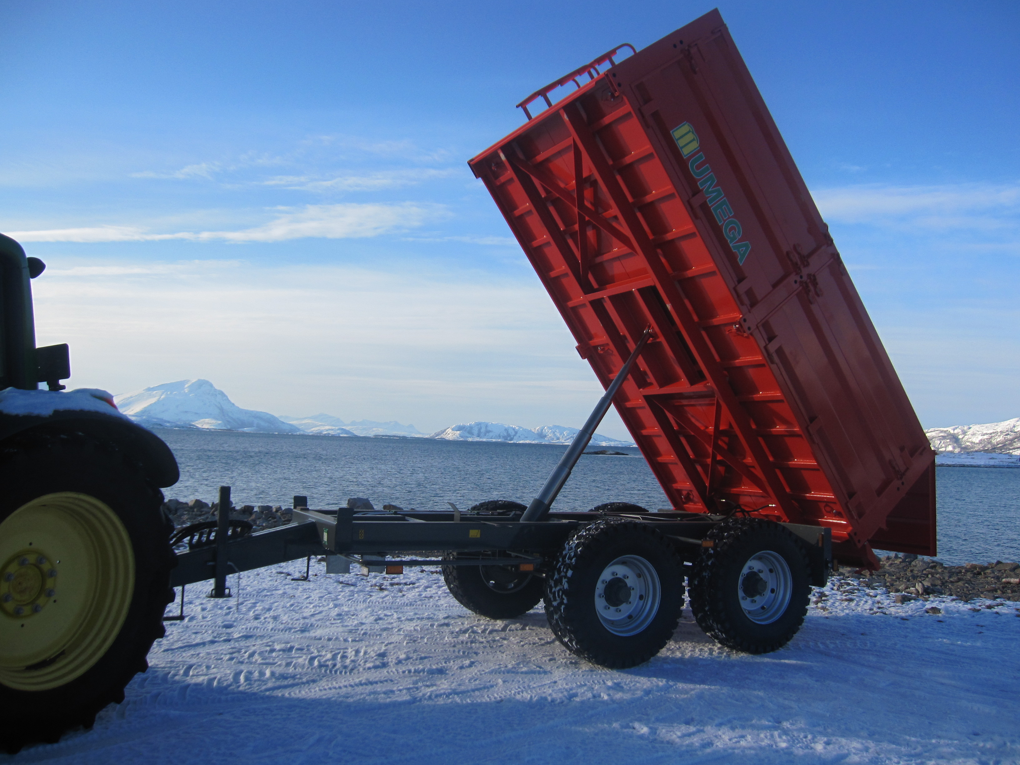 Tractor trailer semitrailer with removable sides